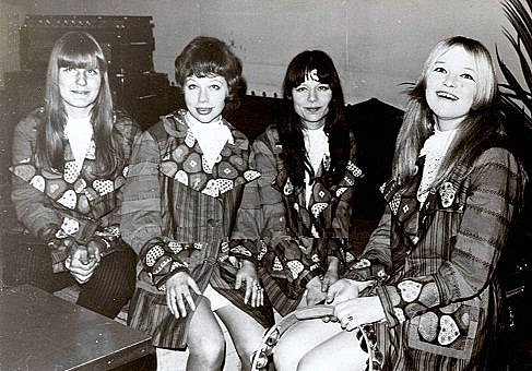 This is a black and white photo of the members of the all girl band called 'Sweet Reaction' taken in 1973 a name which was later changed to 'Pussycat'.